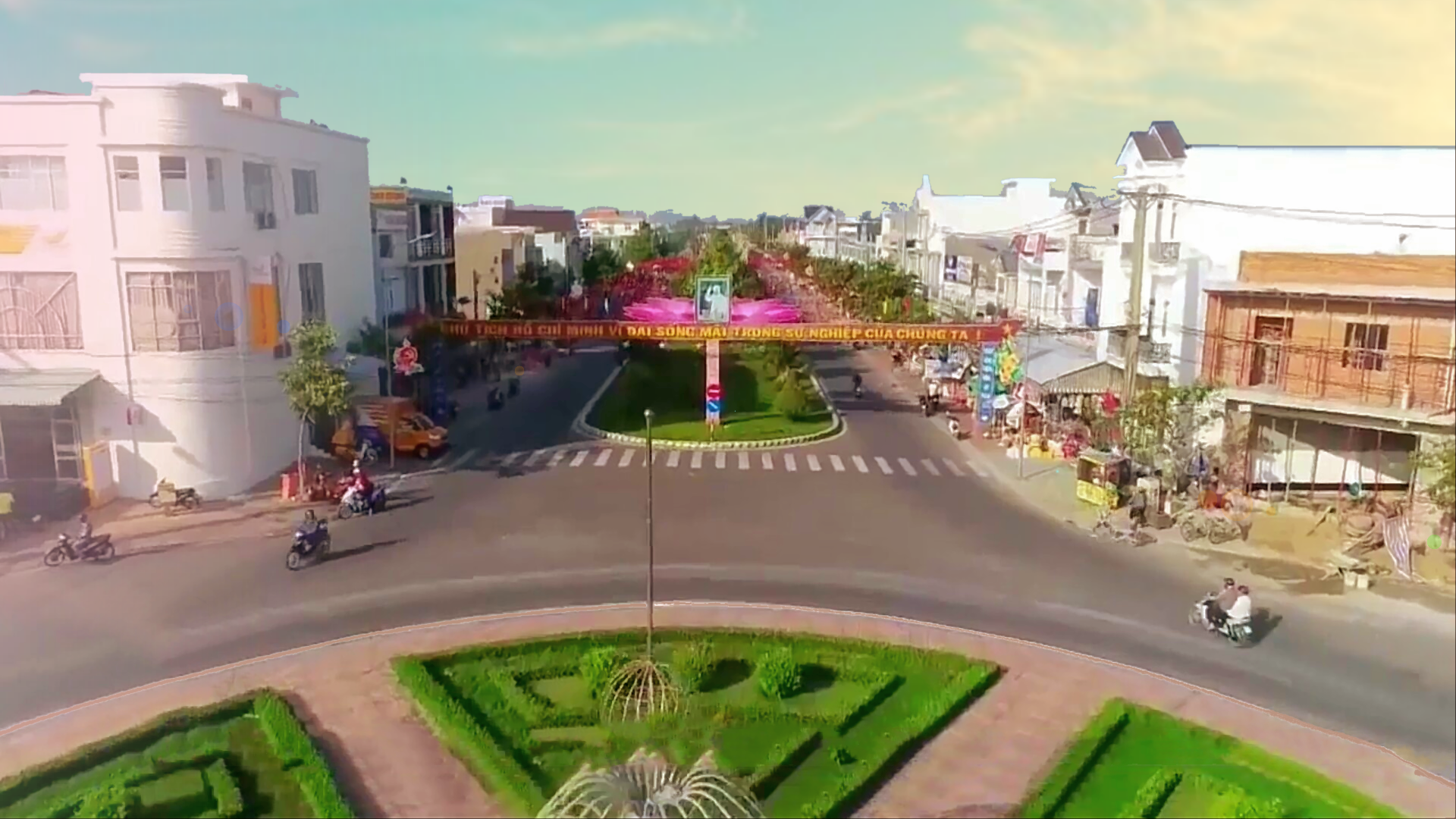 This is image of Cay Duong town in Phung Hiep rural district.